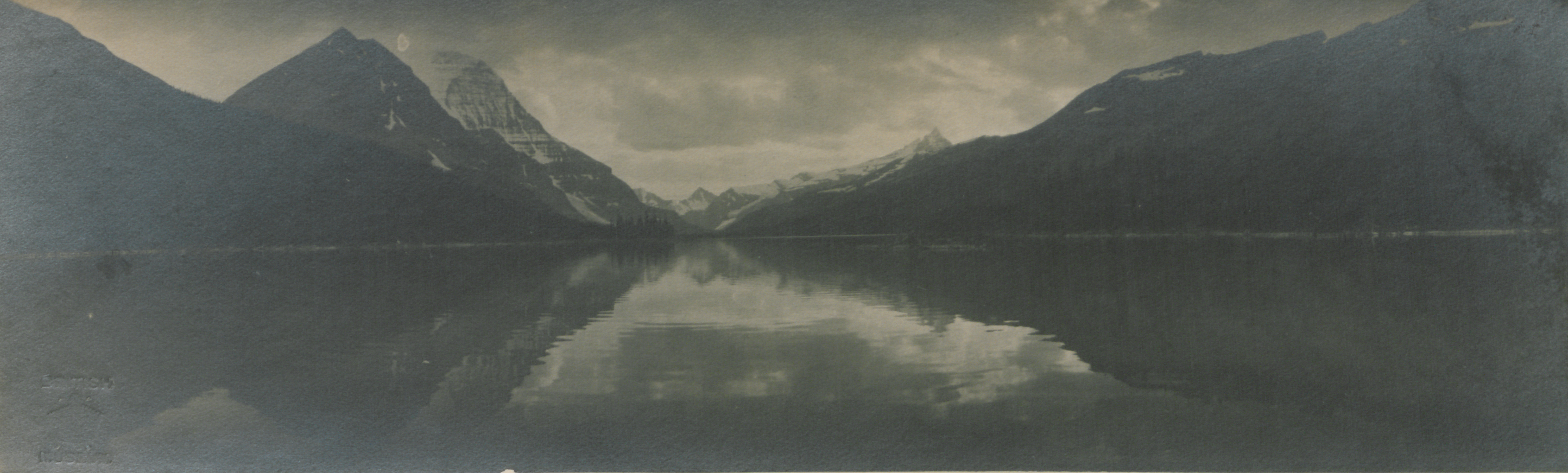 Original caption: “Lake Adolphus.”